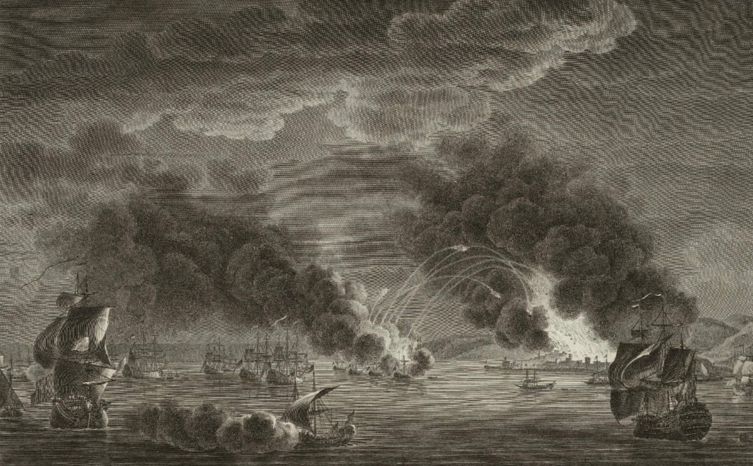 Night bombing of Algiers in 1683 by the French squadron of Abraham Duquesne. Engraving made in 1787 after a drawing by Nicolas Ozanne.